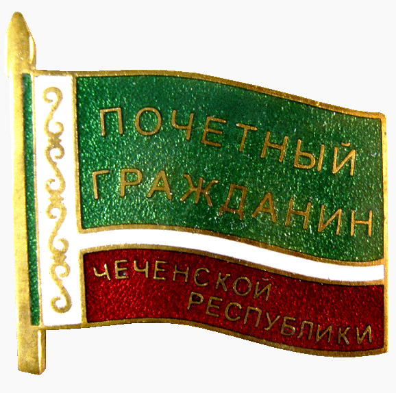 Почётный гражданин Чеченской республики